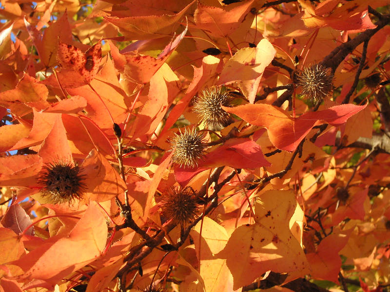 leaves and nuts of Liquidambar_formosana in autumn